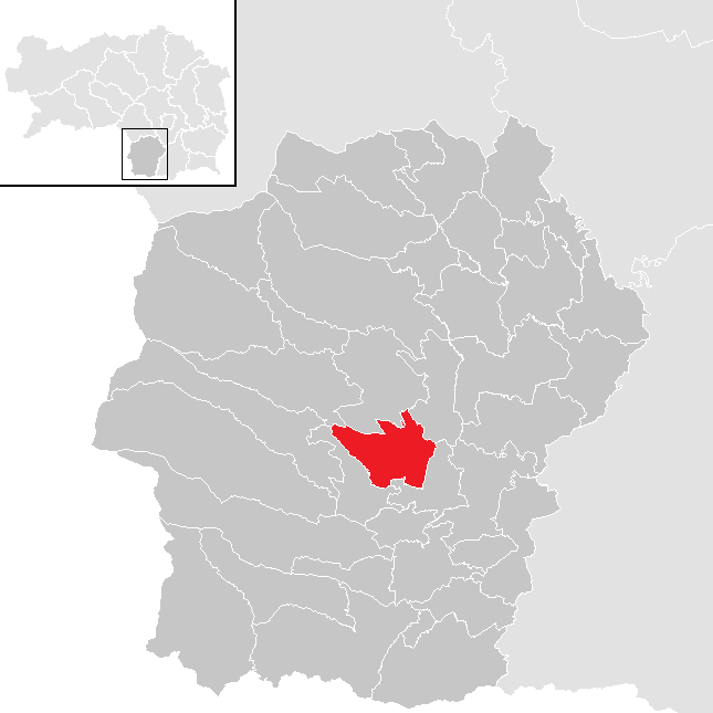 District Deutschlandsberg, Styria, Austria